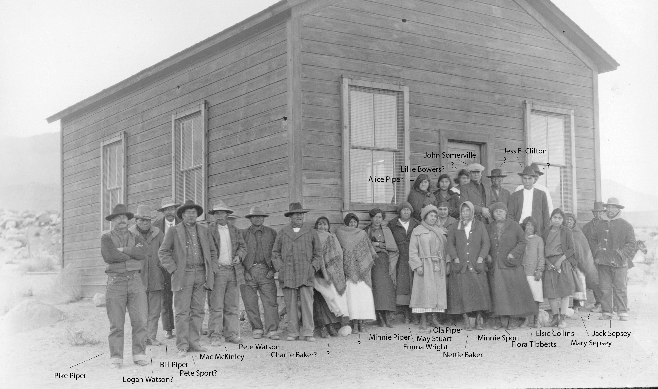 Local Big Pine Paiutes standing in front of their Community Center, in Big Pine, California (c. early 1920's#.